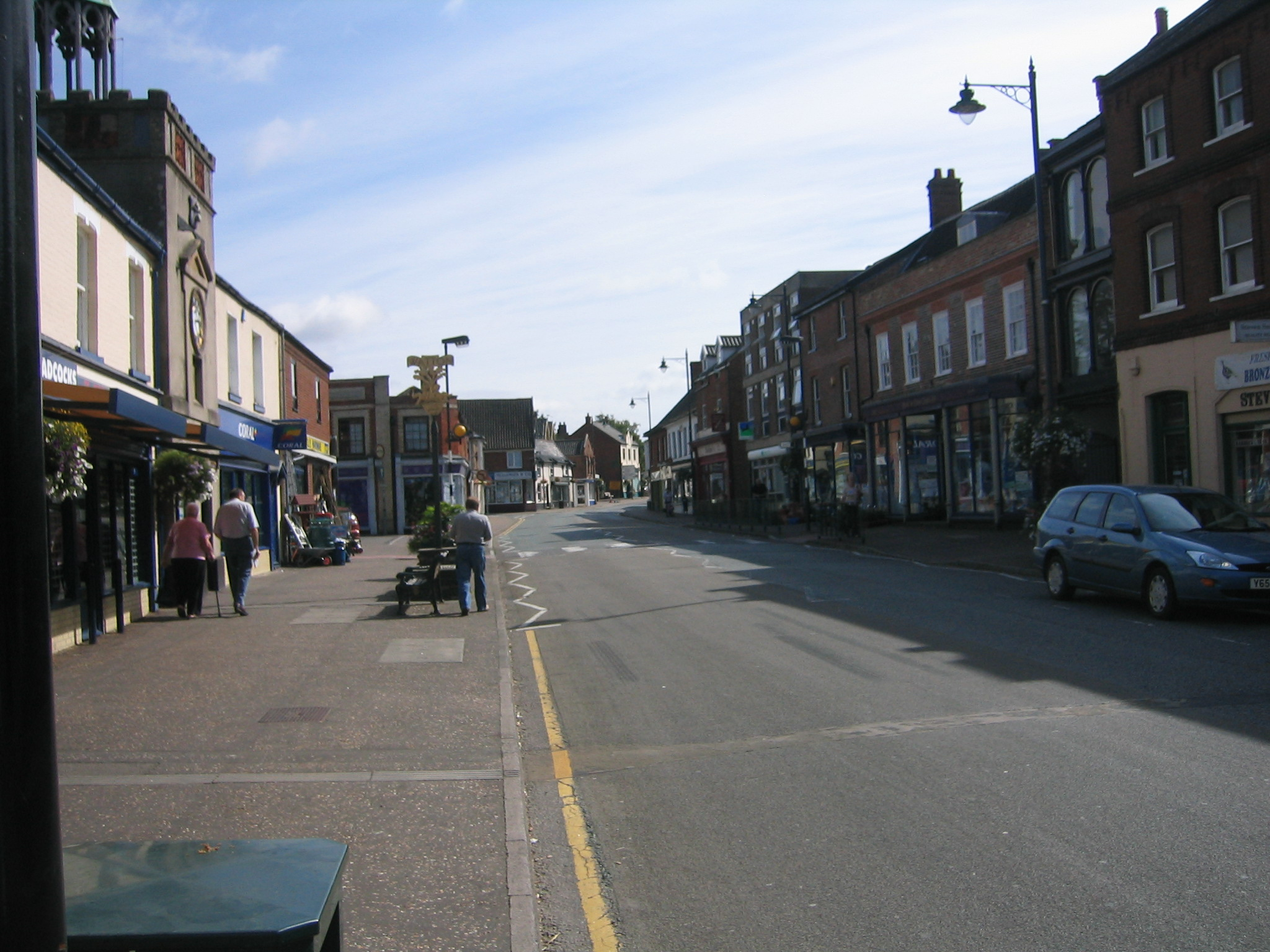 Watton Town Centre. Deben Dave 08:57, 10 September 2007 (UTC)